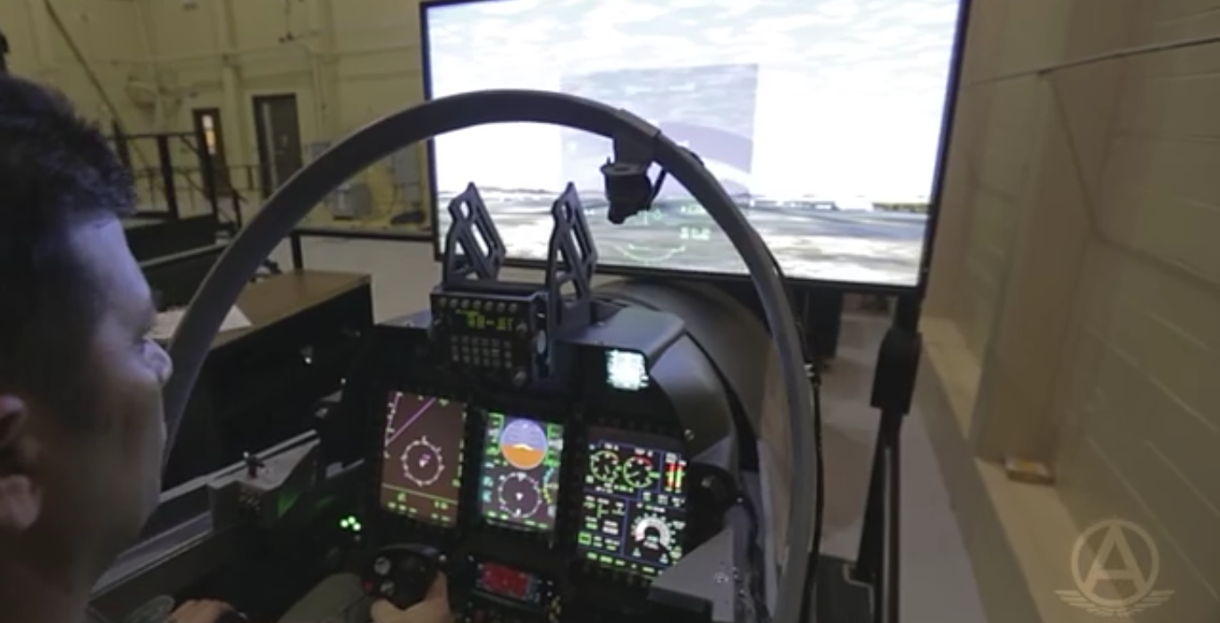 A U.S. Air Force instructor pilot assigned to the 81st Fighter Squadron, Moody Air Force Base, Georgia, reviews the flight after an Afghan student pilot landed in the A-29 Super Tucano flight simulator. Students work with their U.S. instructors to build familiarity and proficiency in the simulator before flying the A-29. The A-29 is a two-seat aircraft, allowing students to fly with U.S. instructor pilots in the back seat. The American instructor pilot can take control of the aircraft at any time, but the students are expected to fly the aircraft through the entire mission. - See more at